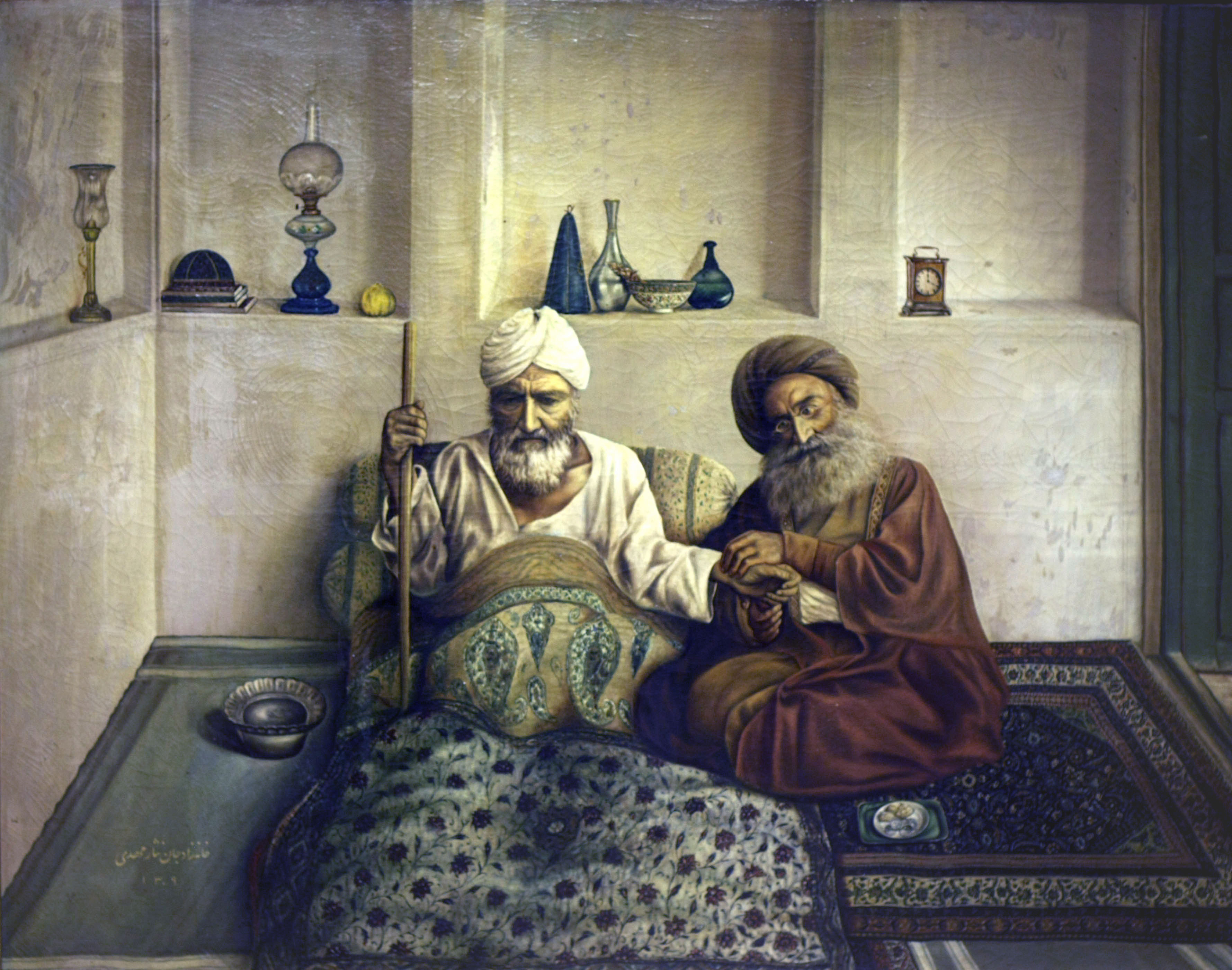 Iranian Physician and Patient